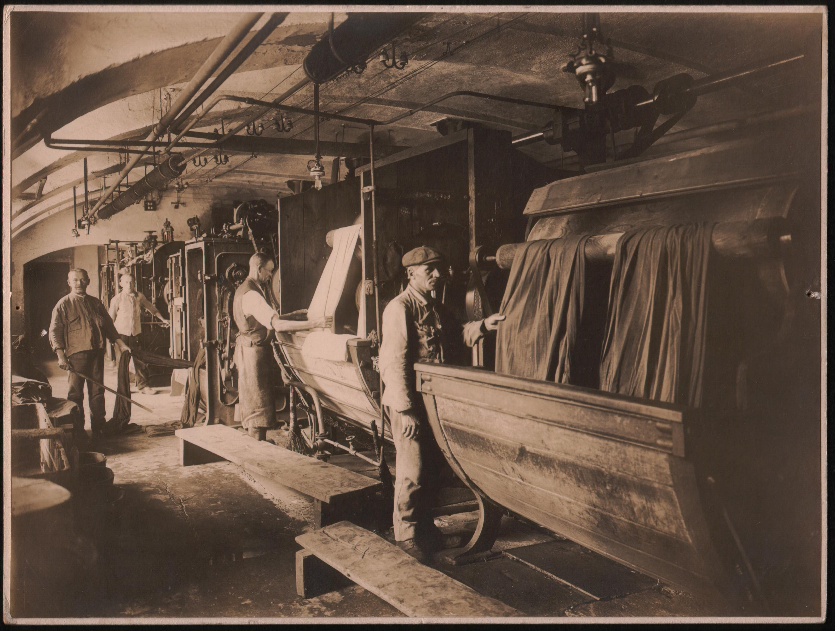 Vonwiller and Co. Žamberk/Senftenberg, Fuller room